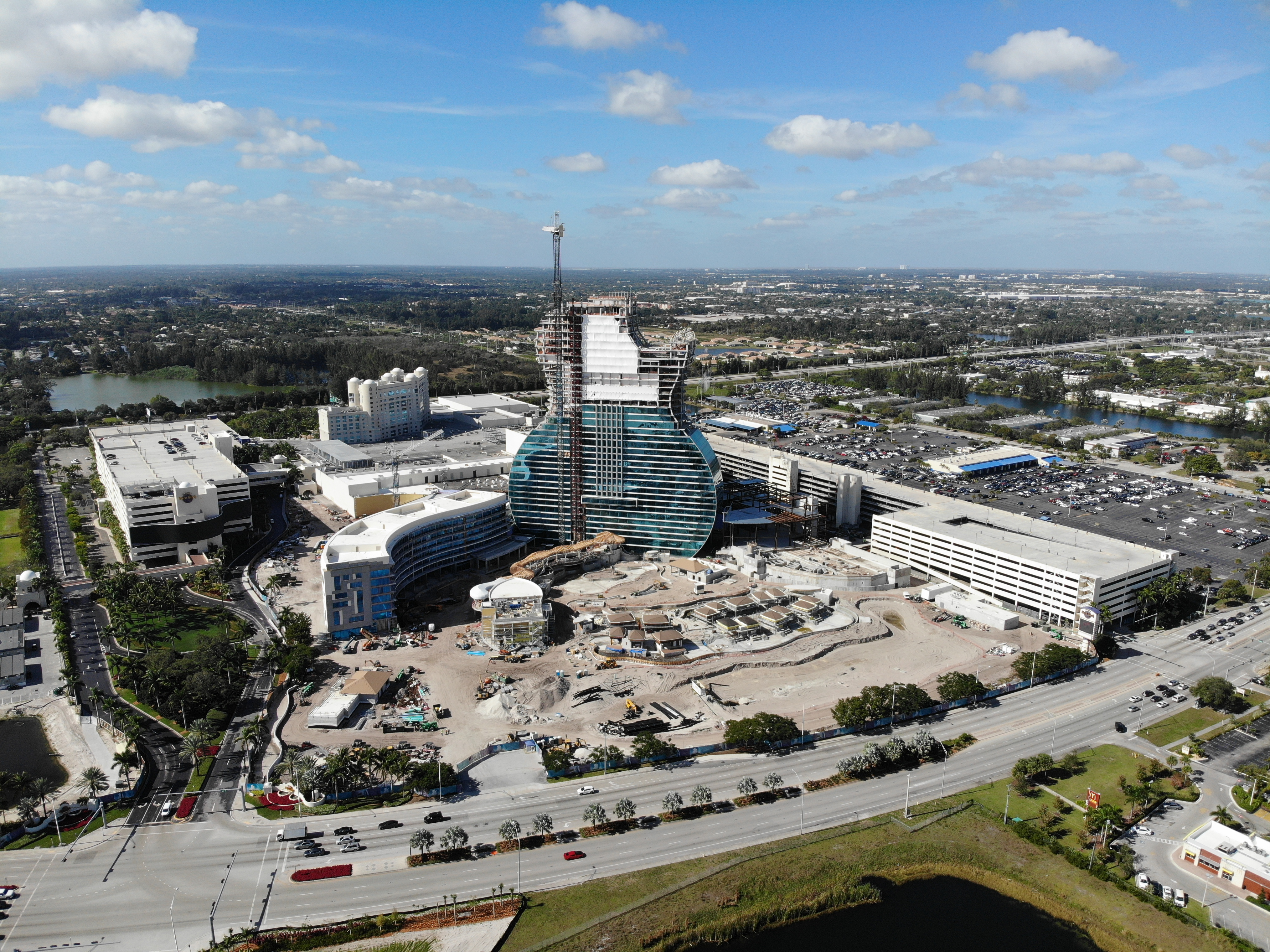 Construction progress of the Seminole Hard Rock Cafe and Resort.